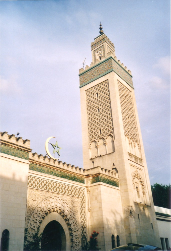 Minaret of a mosque in Paris.